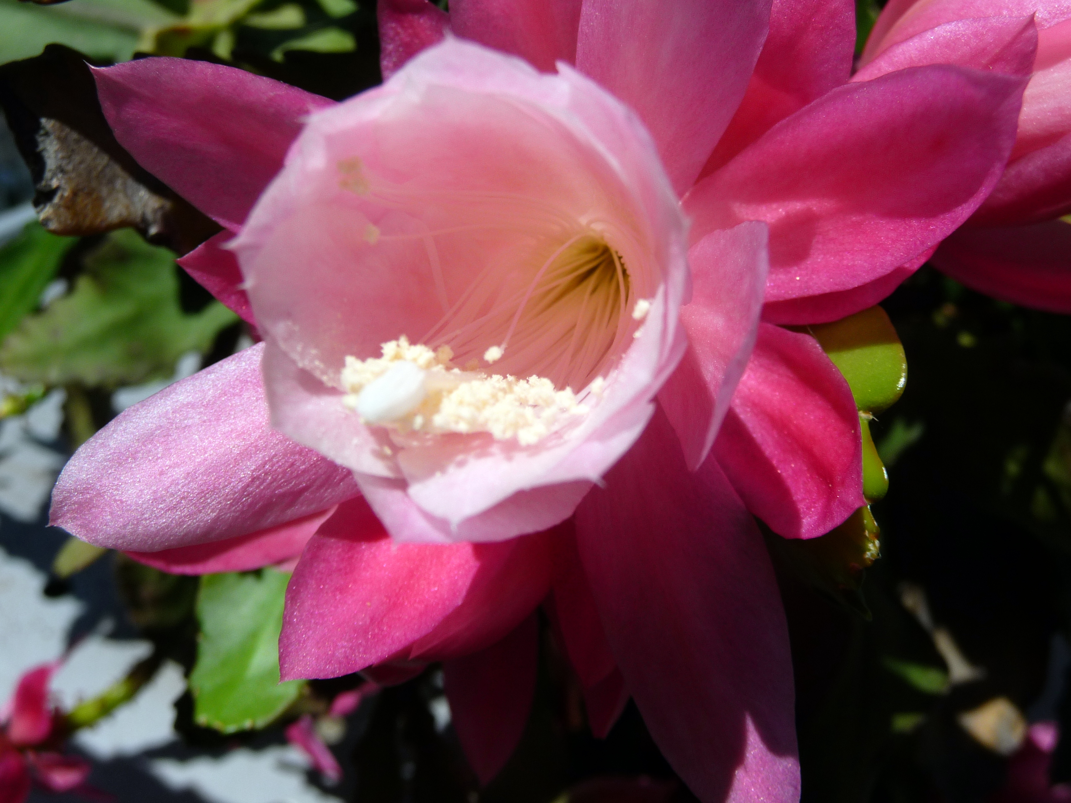 Detail of d. phyllanthoides flower